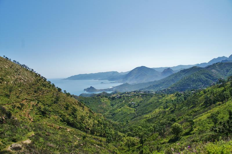 Corniche Kabylie